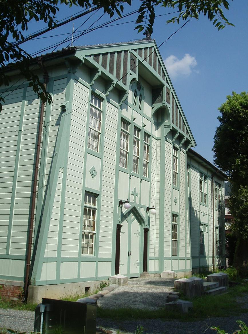 The Alumni Memorial Hall, Faculty of Engineering, Gunma University. Built in 1915 as the main bldg. of Kiryu Higher Dyeing and Weaving Vocational School.Located in Tenjin-cho, Kiryu City, Gunma Prefecture, Japan.